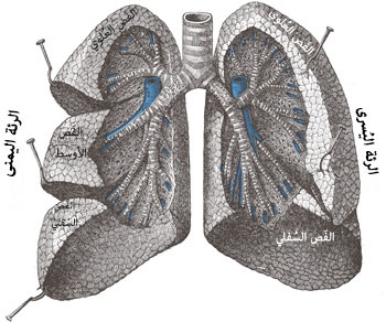 Drawing of human lungs cut open